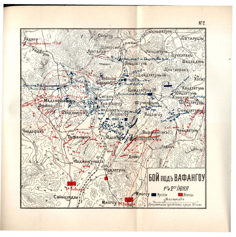 Battle of Telissu map